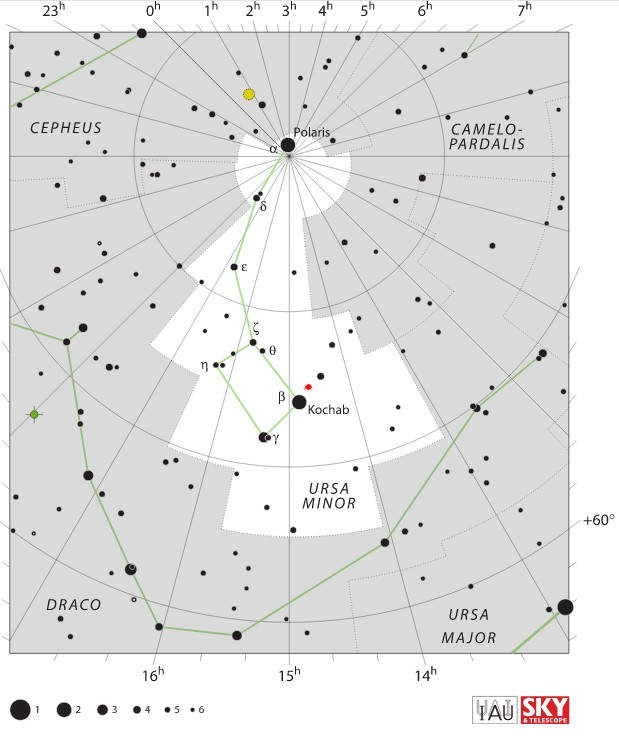 Radiant for Ursids 2018 on 22 December 2018 according to . See red dot.